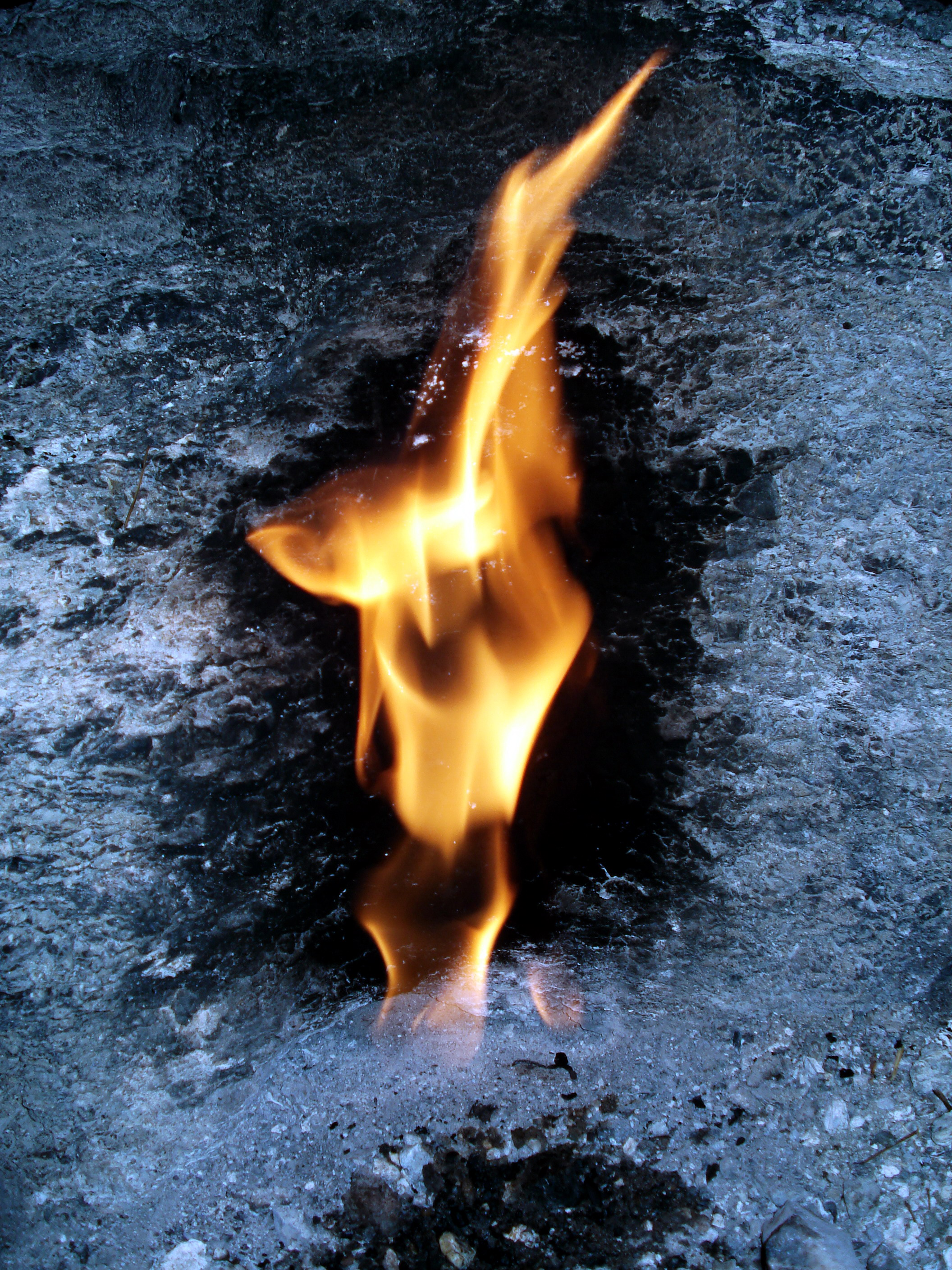 Close-up view of the eternally 'flaming stones' of Yanartaş (the ancient Chimaera) near Çıralı in Lycia region of Anatolia, southwest Turkey. The flames come from leaking natural gast. . .